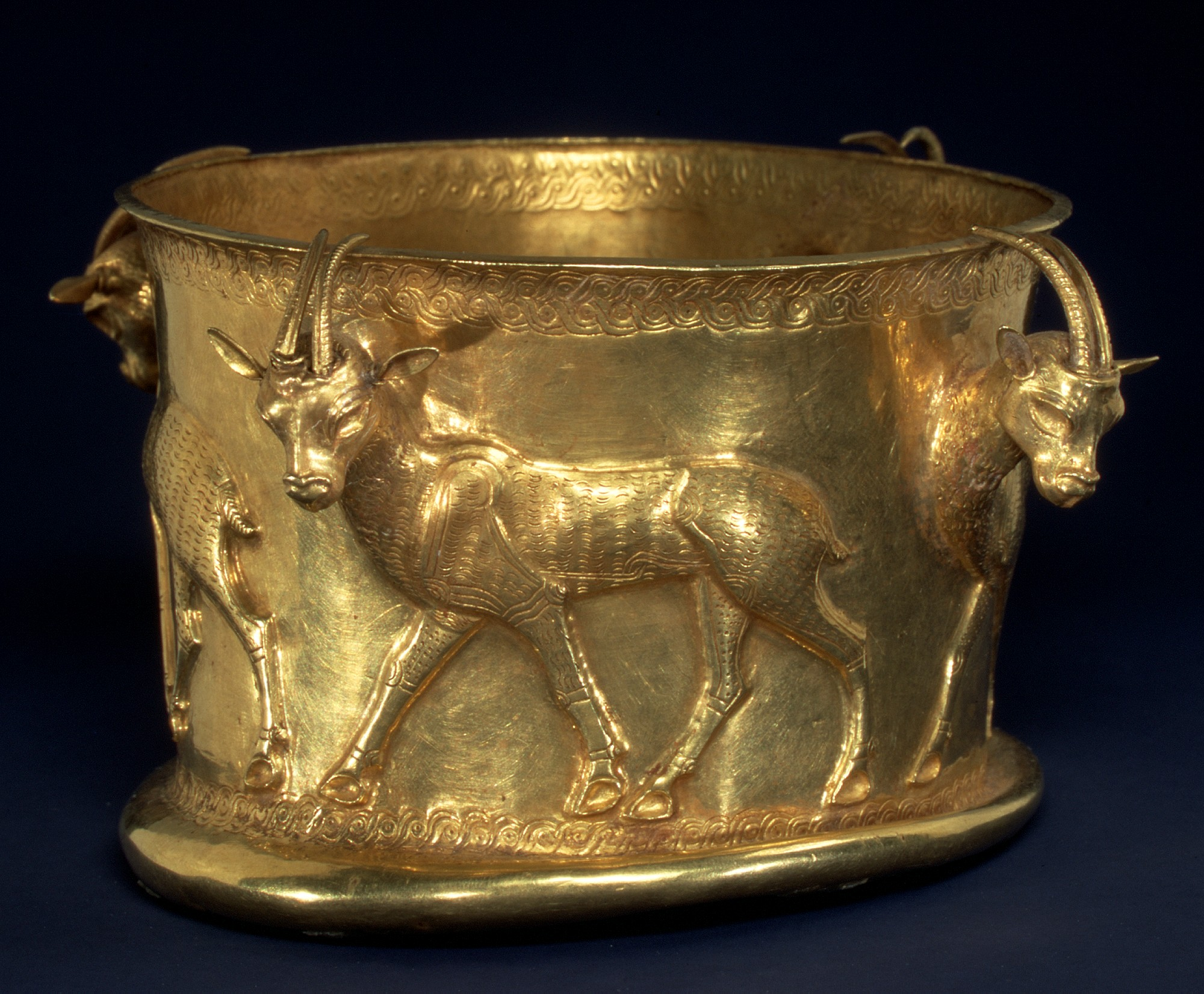 Iran; Cup; Metalwork-Vessels. (Link to the free license archive)